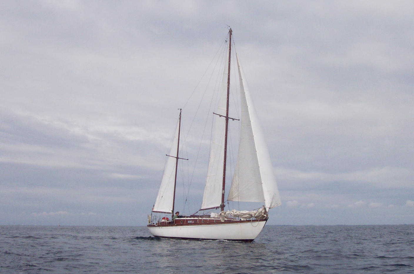 Description =Aquarius, un plan Cornu Source =Photo taken by Remi Jouan Date =Aout 2002 Author =Remi Jouan